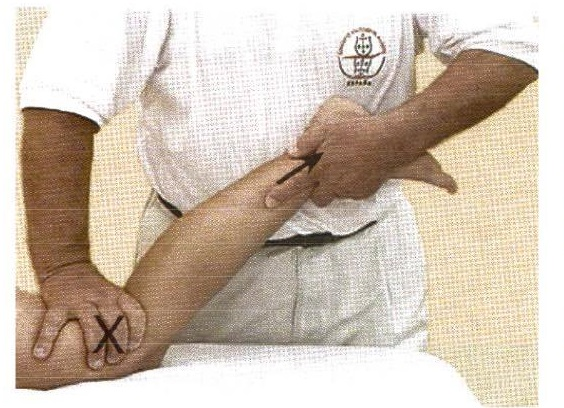 Koleno